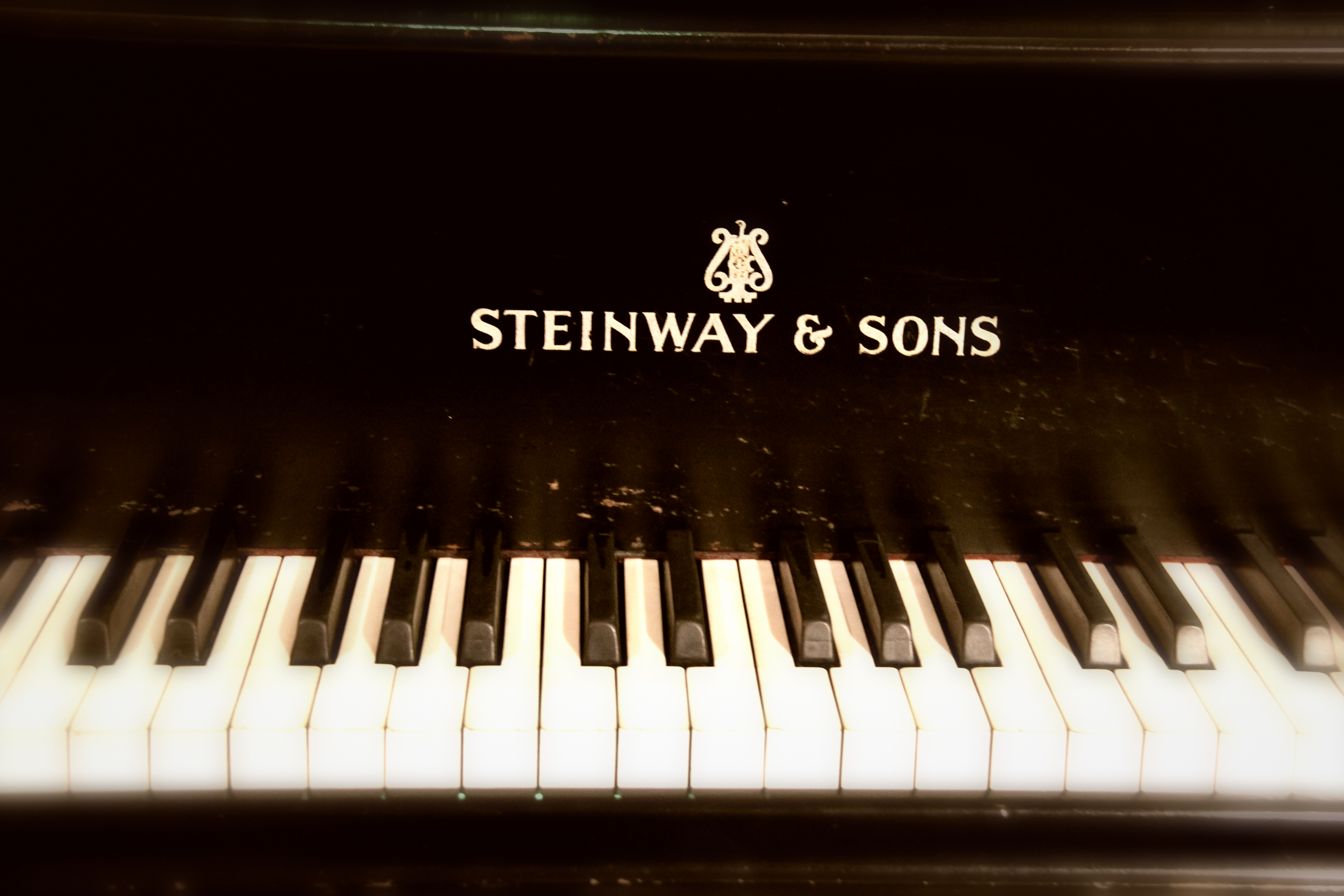 Steinway & Sons Grand Piano logo, RCA Studio B